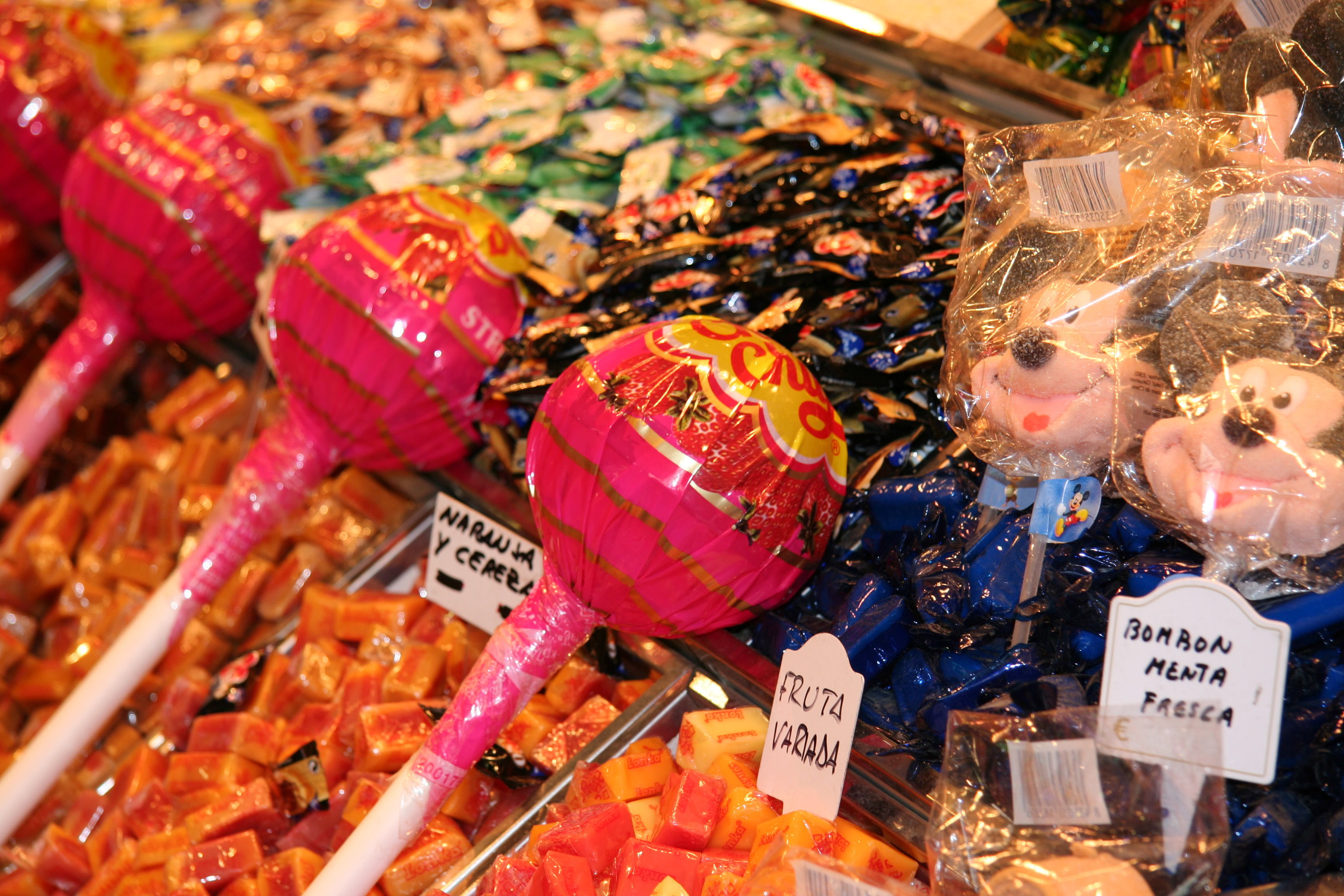 Giant Chupa Chups lollipops on display for sale on a market in Barcelona, Spain. Created by Michael Ströck (mstroeck) in May 2006. Released under the GFDL.